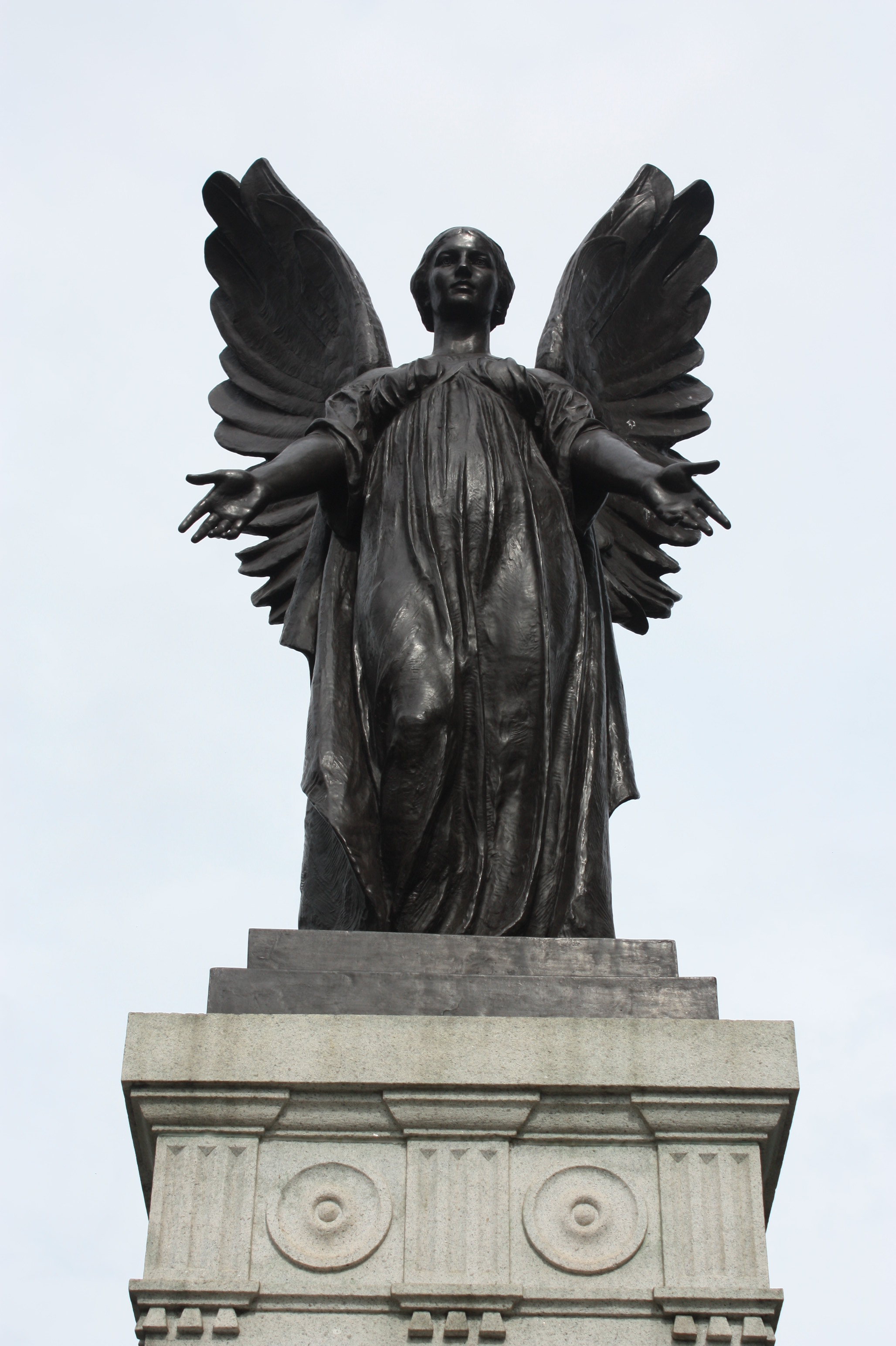 Cupar War Memorial (close-up of figure)